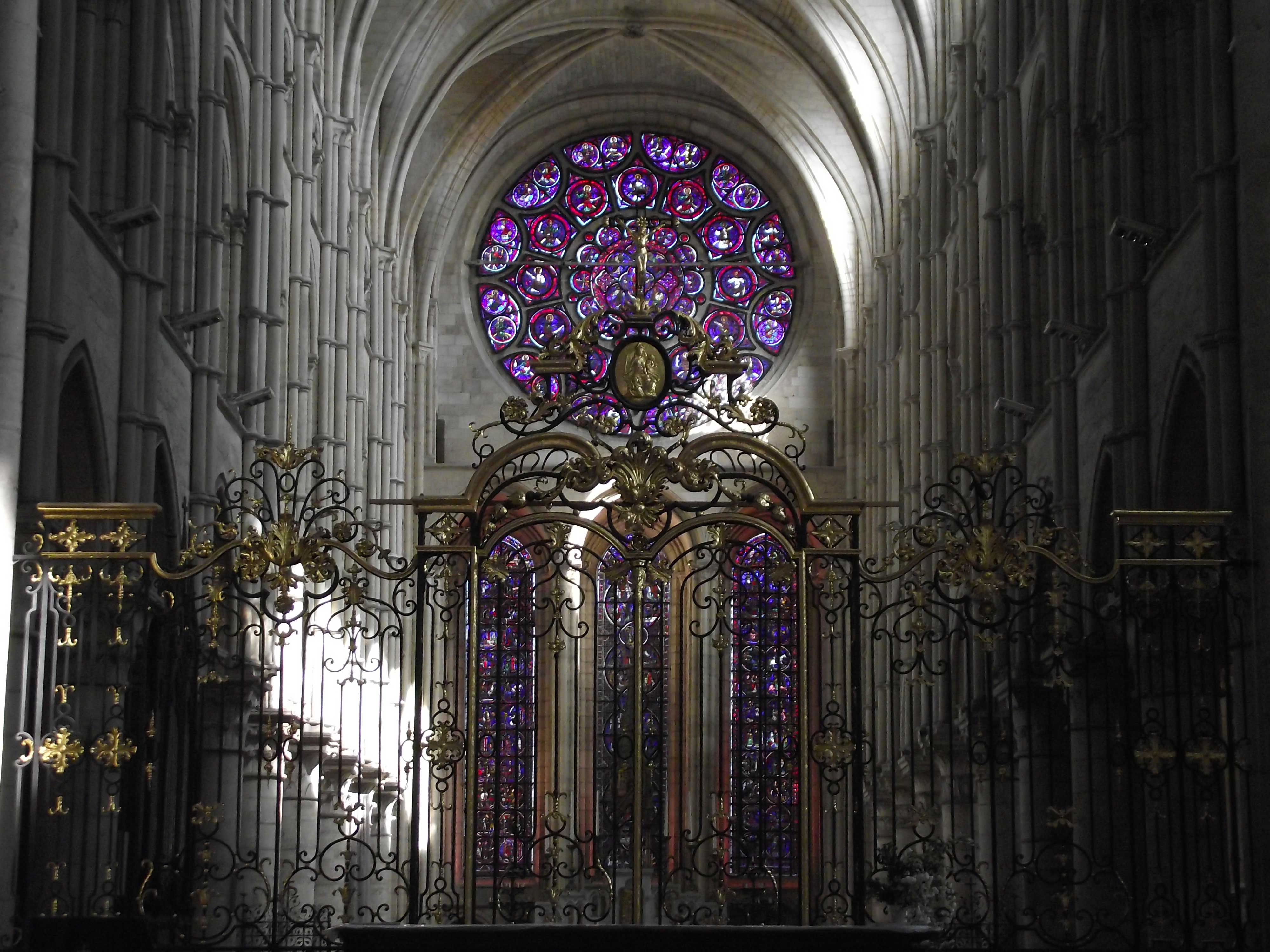 Laon, Cathedral of Our Lady, 1155-1225